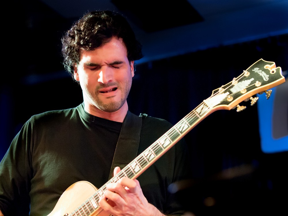 Scott DuBois, Jazz guitarist; Picture taken in Jazz Club Unterfahrt, Munich/Bavaria